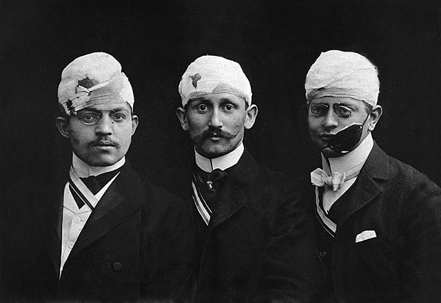 Jewish Students After Fencing Exercise, Heidelberg, Germany 1906. The students are members of the Kartell-Convent (KC), most probably of the K.C. Bavaria Heidelberg.